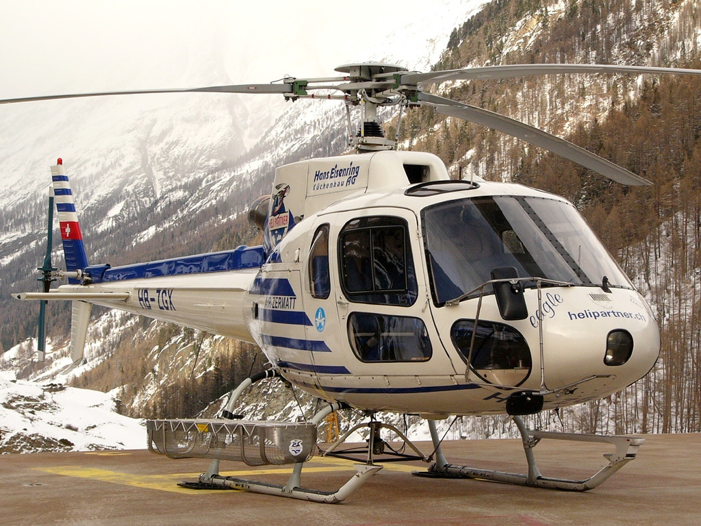 In Zermatt Heliport after flights.